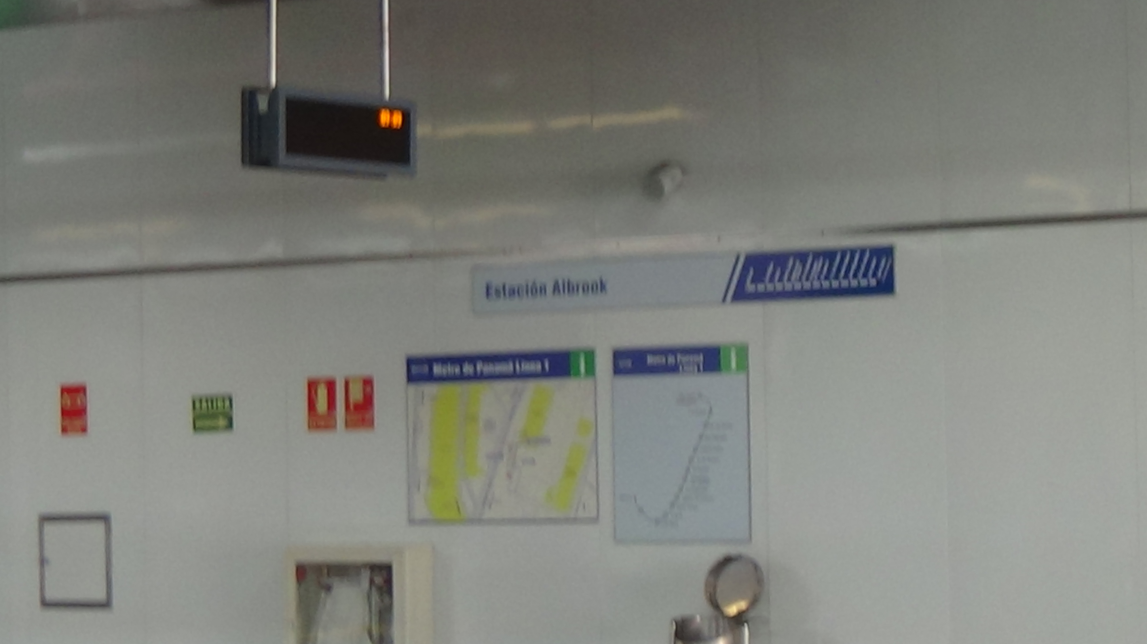 Signage of Albrook metro station